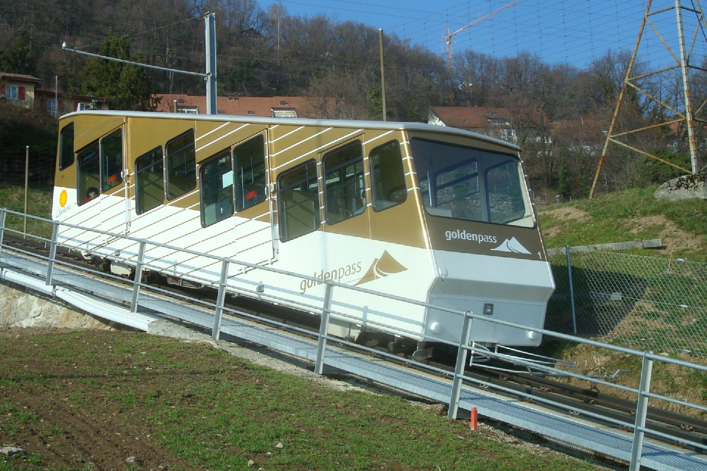 Car 1 of the Funiculair Vevey–Chardonne–Mont Pèlerin (VCP) on route between Chardonne-Jongny and La Baume (Chardonne Municpality).